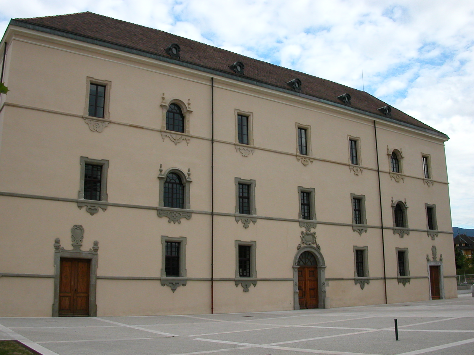 Former hospices of Thonon-les-Bains, nowadays home of the Tribunal de grande instance